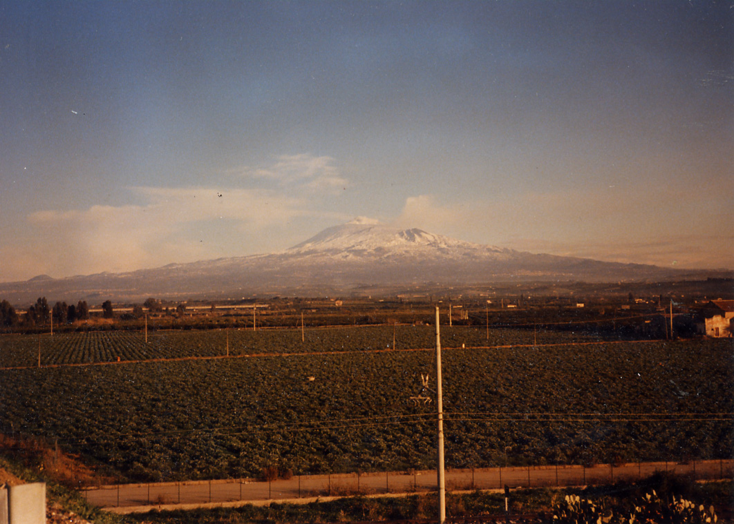 A view of Catania Plain. On the background, the volcan Etna.